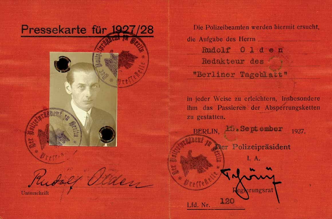 Press card for Rudolf Olden. Issued September 15, 1927